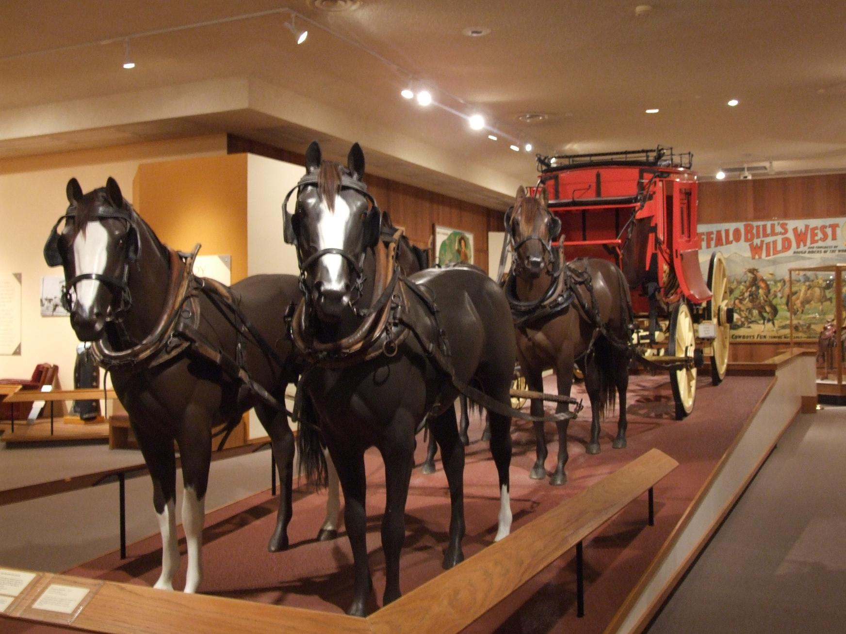 The Deadwood Stage at the Buffalo Bill Center, Cody This 9-passenger overland coach was manufactured by the Abbot-Downing Co of Concord, NH in about 1863. Buffalo Bill used it in his Wild West shows in Europe and America.